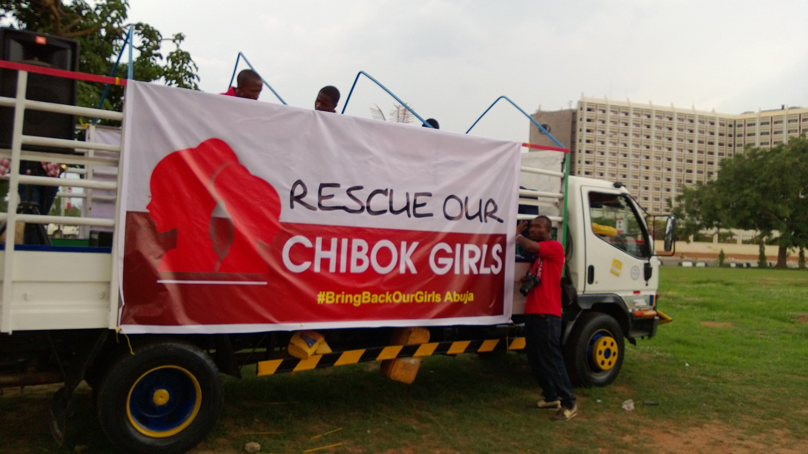 A truck promotes the #BringBackOurGirls hashtag used by protesters of the 2014 Chibok kidnapping